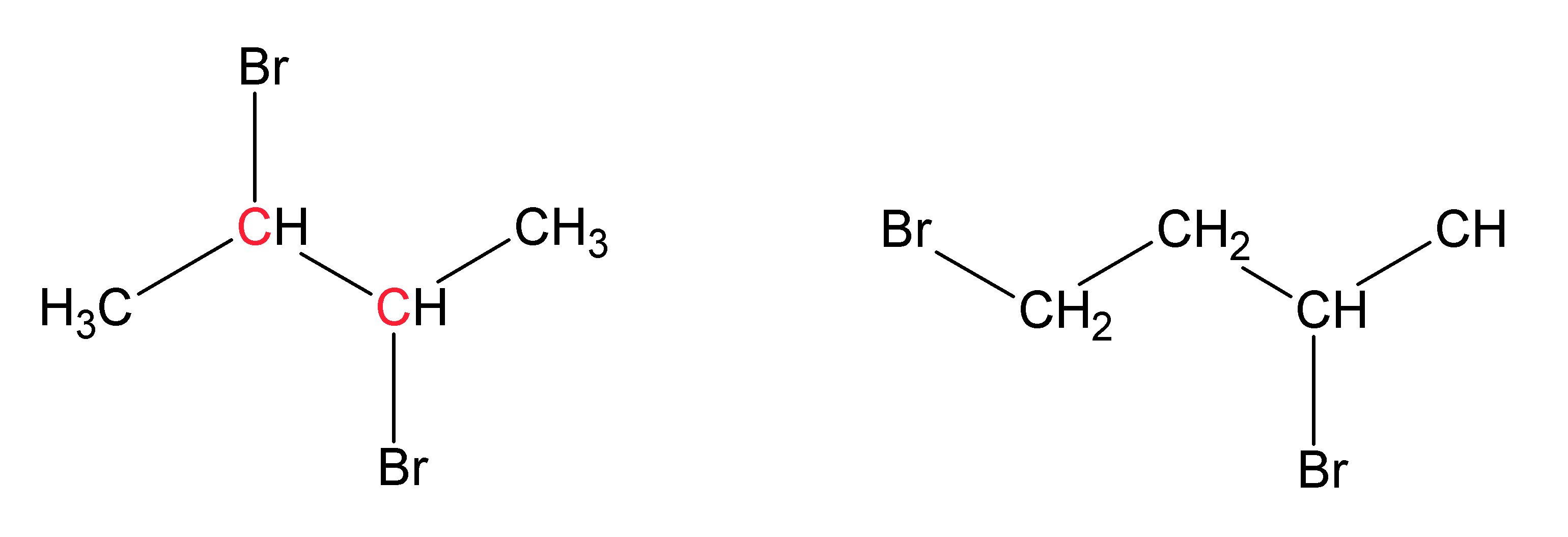 Comments High-resolution black/white/red .PNG made with ChemSketch and Photoshop — see WikiProject Chemistry - structure drawing for detailed instructions. Please drop me a note if you need the source file. Category:Chemical structures (Original text: Chemical structure of Vicinal)